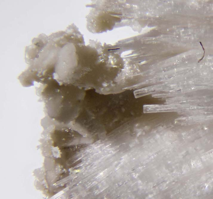 Outstanding beige sharp perfect crystals of the very rare mineral berborite in a matrix of natrolite. From: Saga 1 Quarry, Porsgrunn, Telemark, Norway.